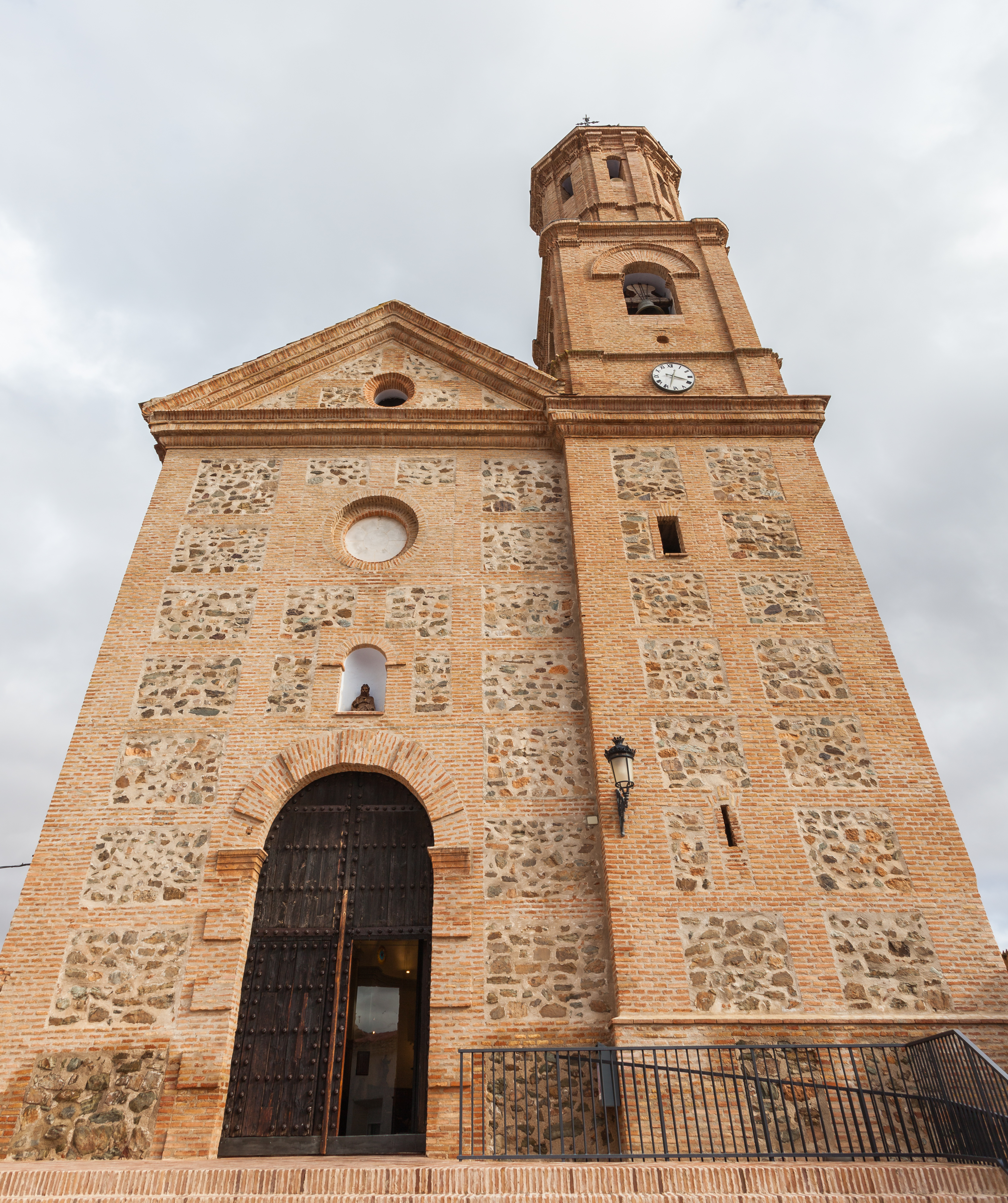 Church of Santa Eulalia, Moros, Zaragoza, Spain